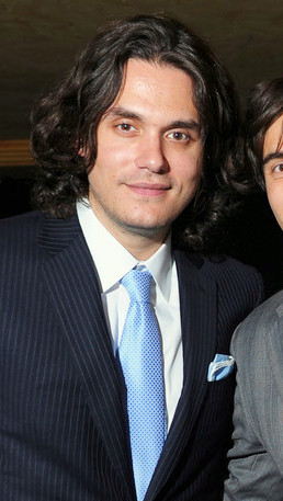 John mayer at webby awards